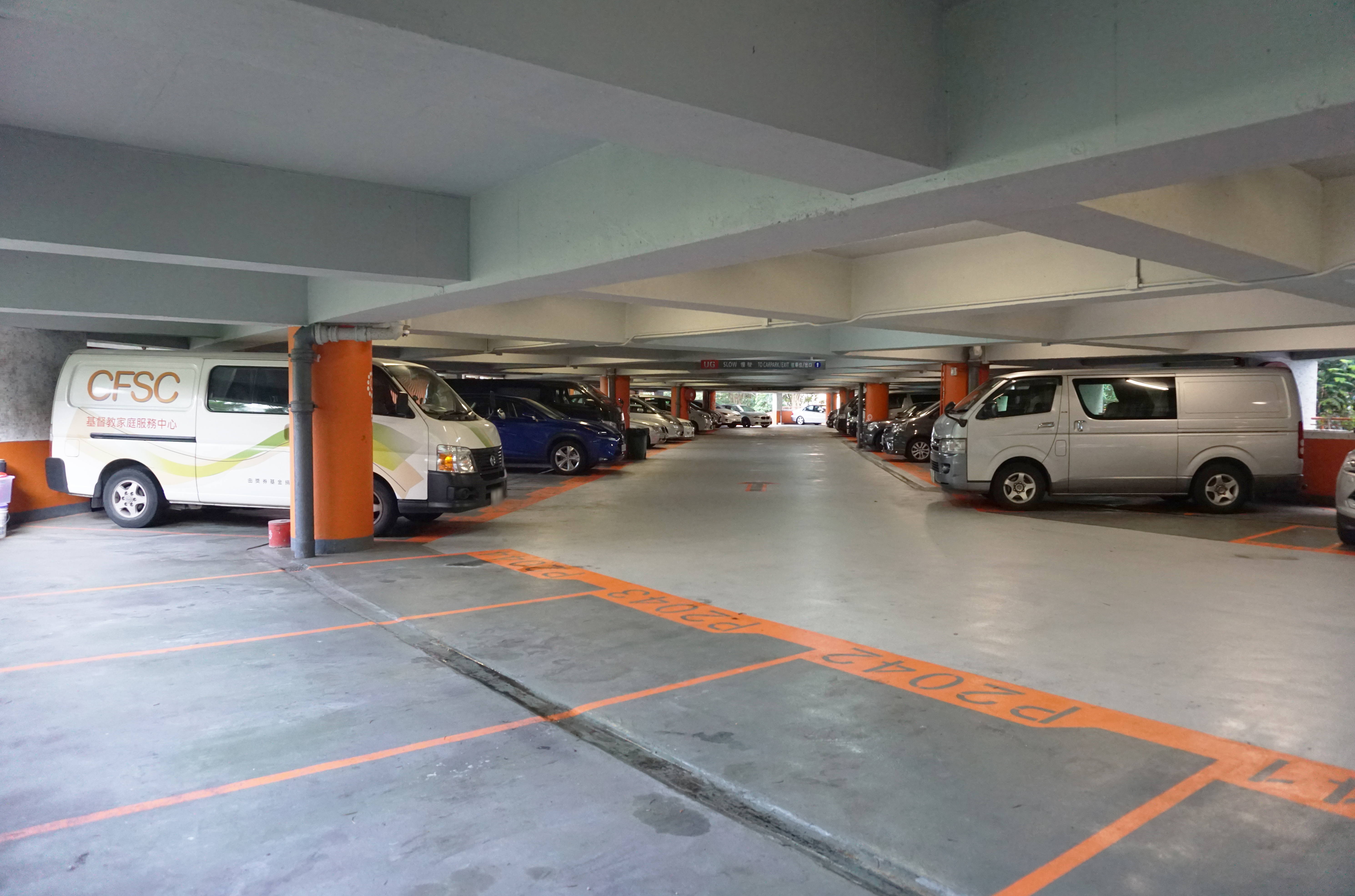 Tsui Lam Estate in Tseung Kwan O, Hong Kong.